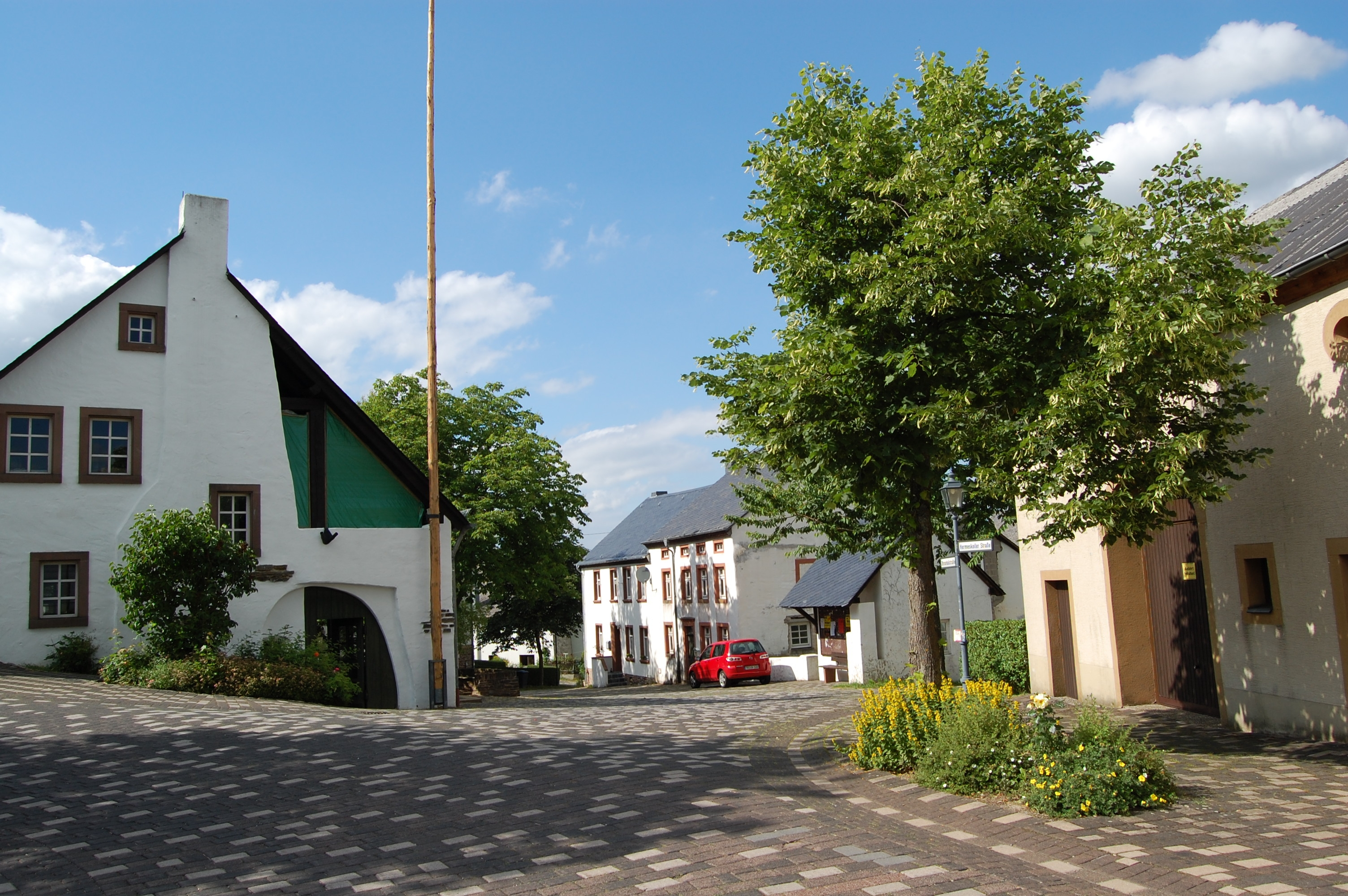 Village Bescheid in the Huinsrück landscape, Germany.